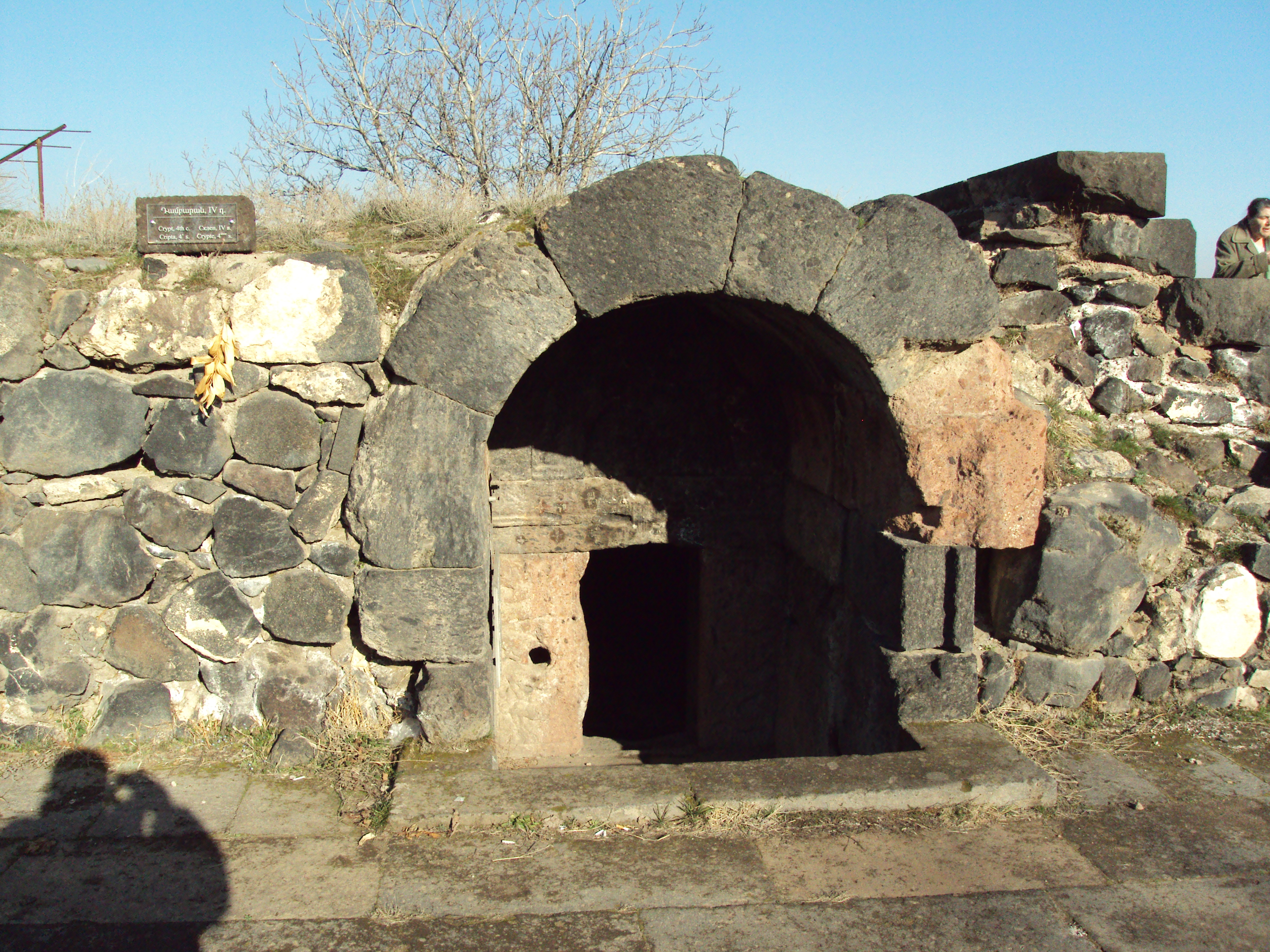 Mausoleum of Armenian Arshakunyats kings, 364